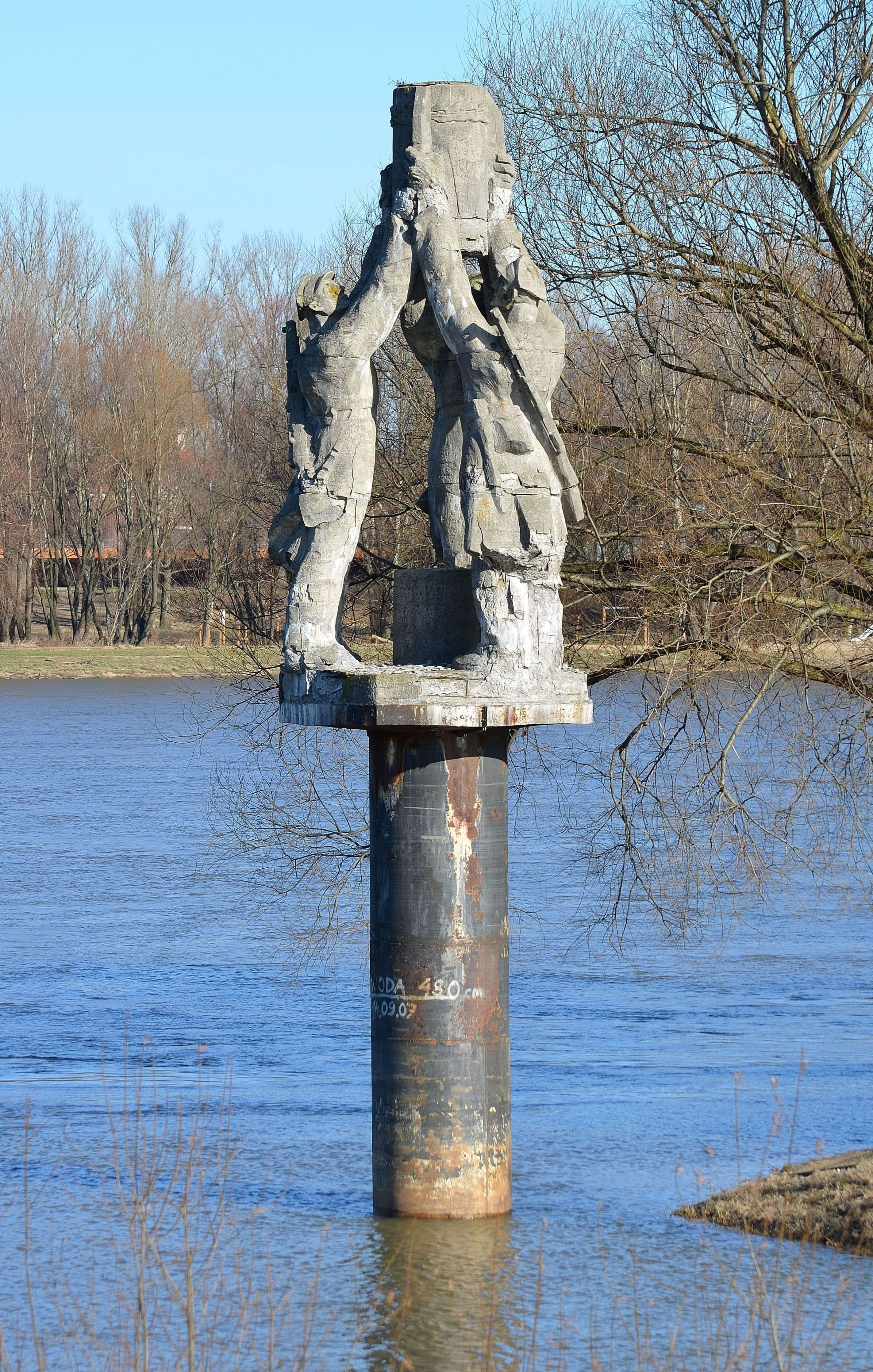 Part of Chwała Saperom Monument in Warsaw